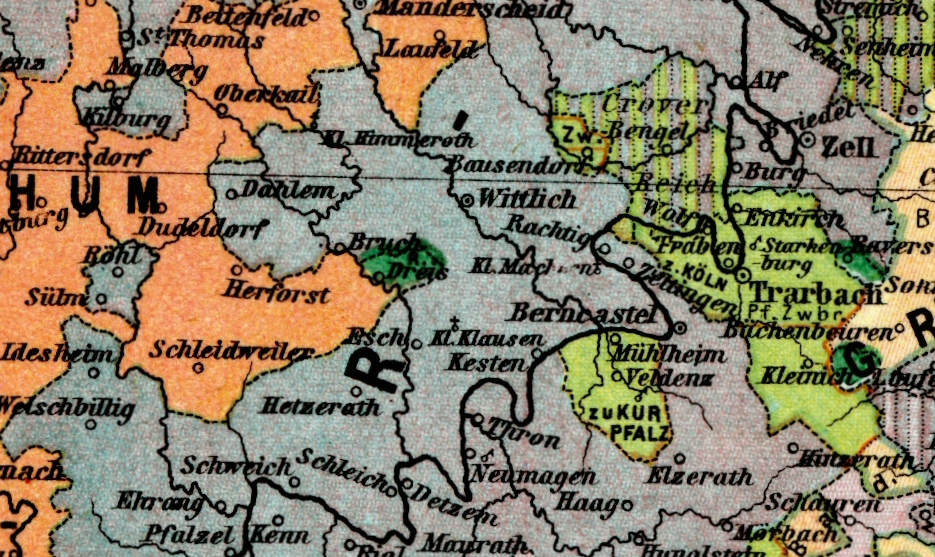 map of the county of Veldenz and the lordship of Dreis